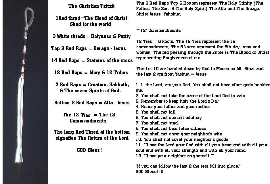 The Christian Tzitzit